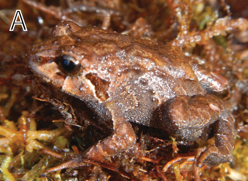 Holotype of Phrynopus curator in life (MUSM 31106, female, SVL 20.7 mm) in lateral view. Photos by E. Lehr.